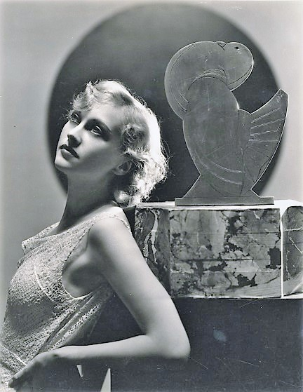 Sheila Terry